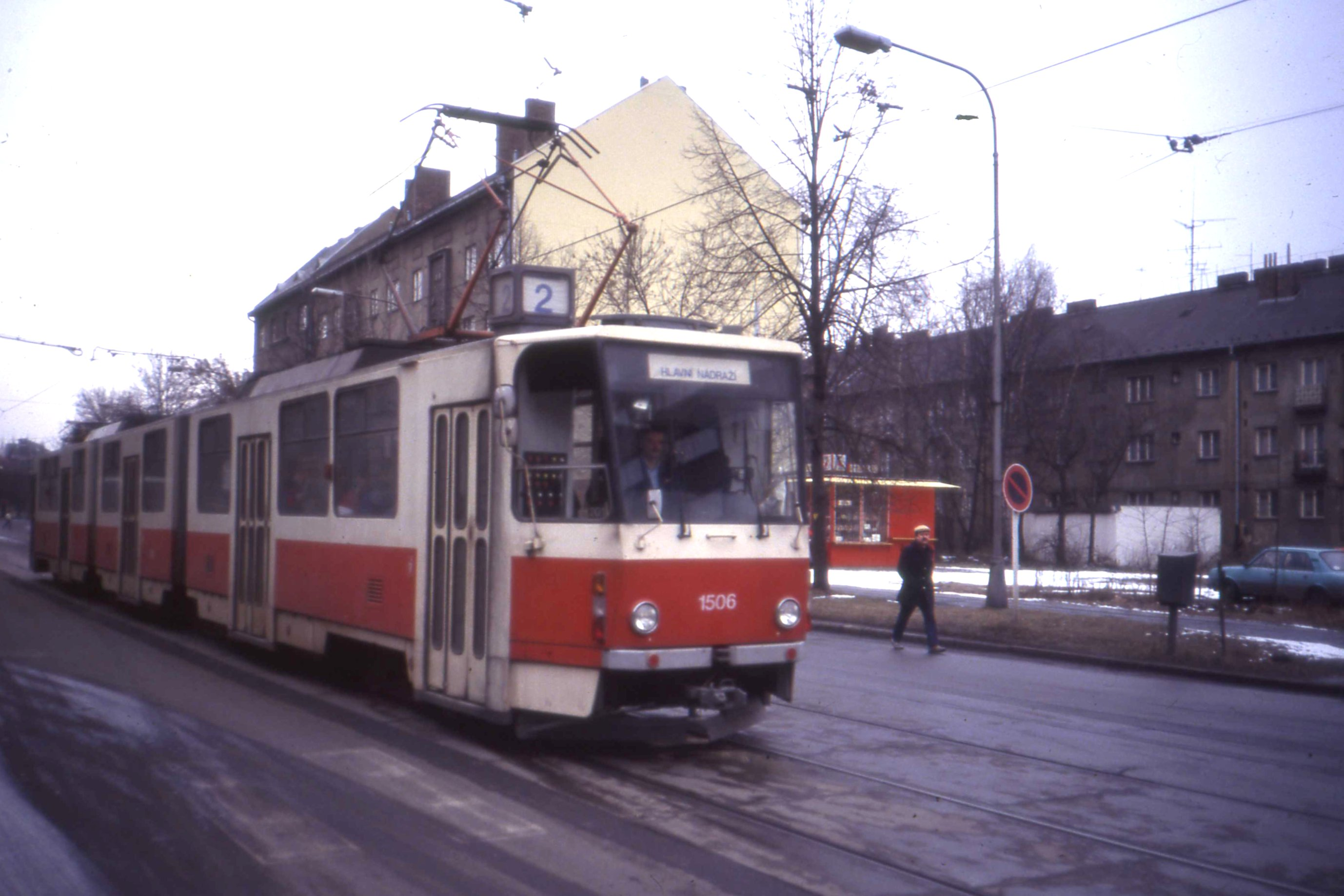 Tatra KT8D5 nr 1506 , one of 16 bought by DP Ostrava, was new in 1989.